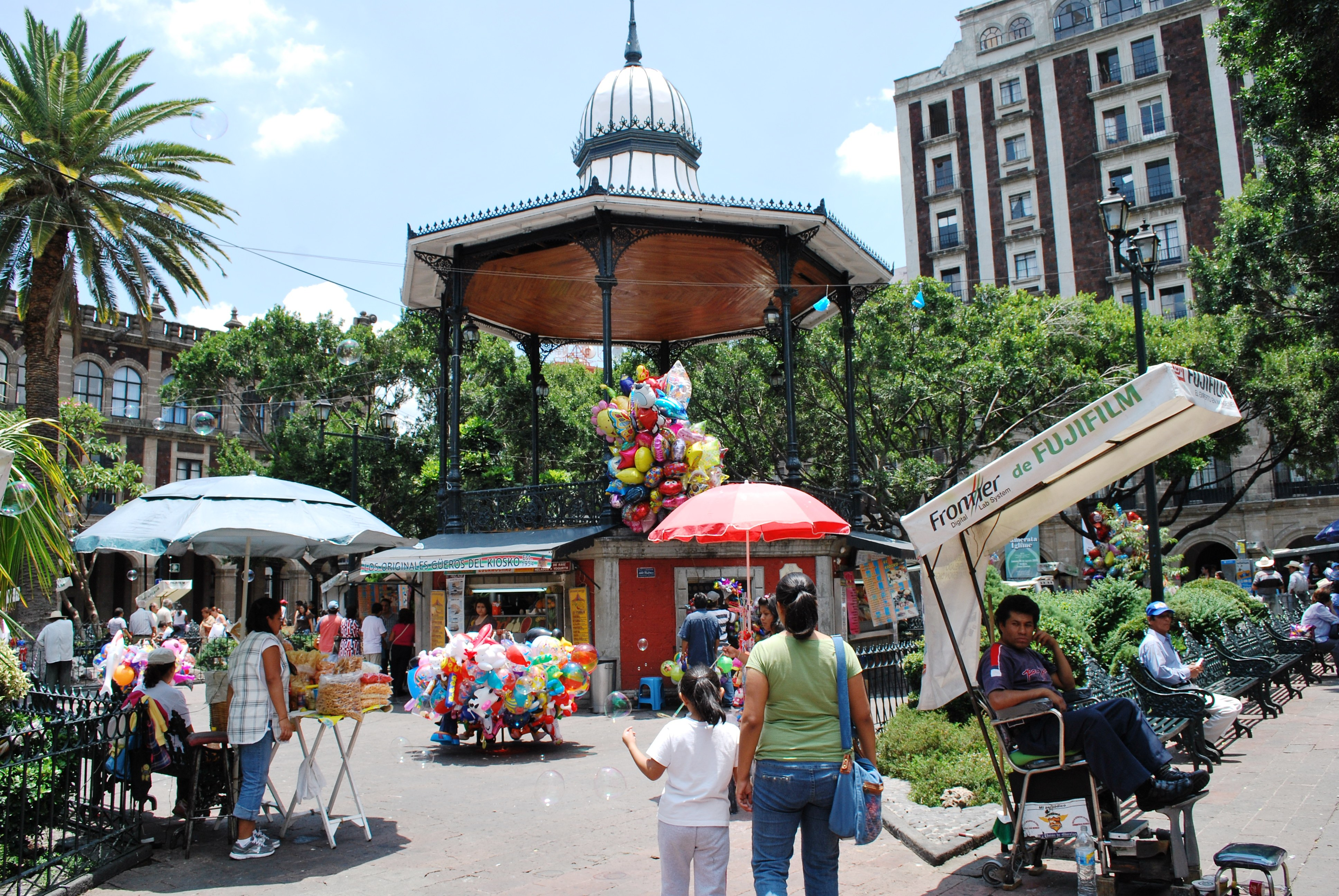 View of Jardin Juarez in downtown Cuernavaca, Morelos, Mexico